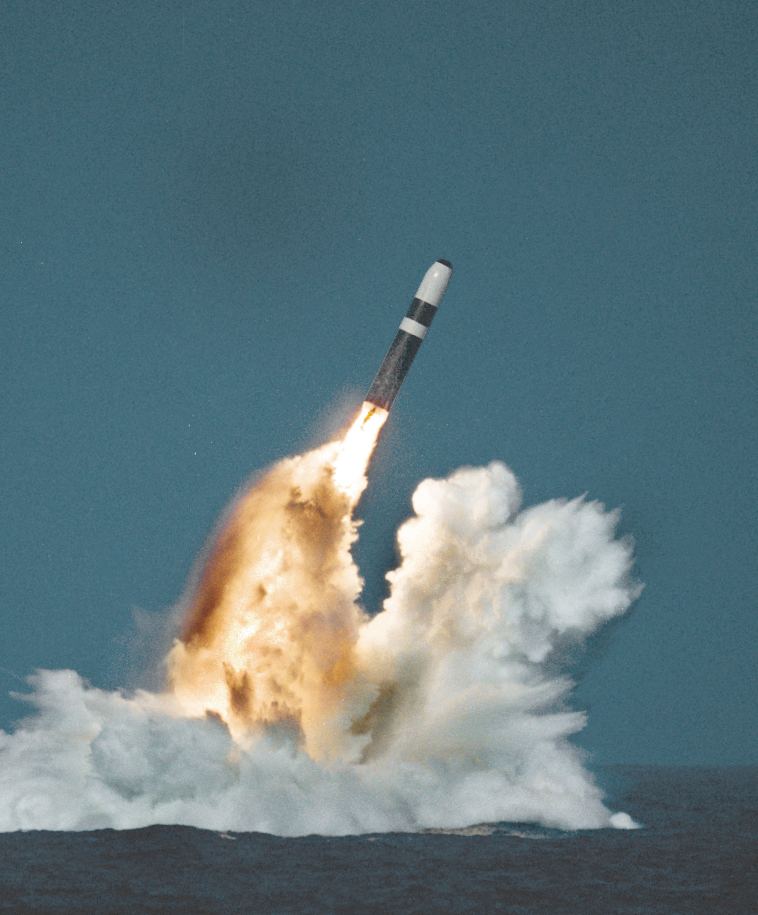 United States Trident II (D-5) missile underwater launch.